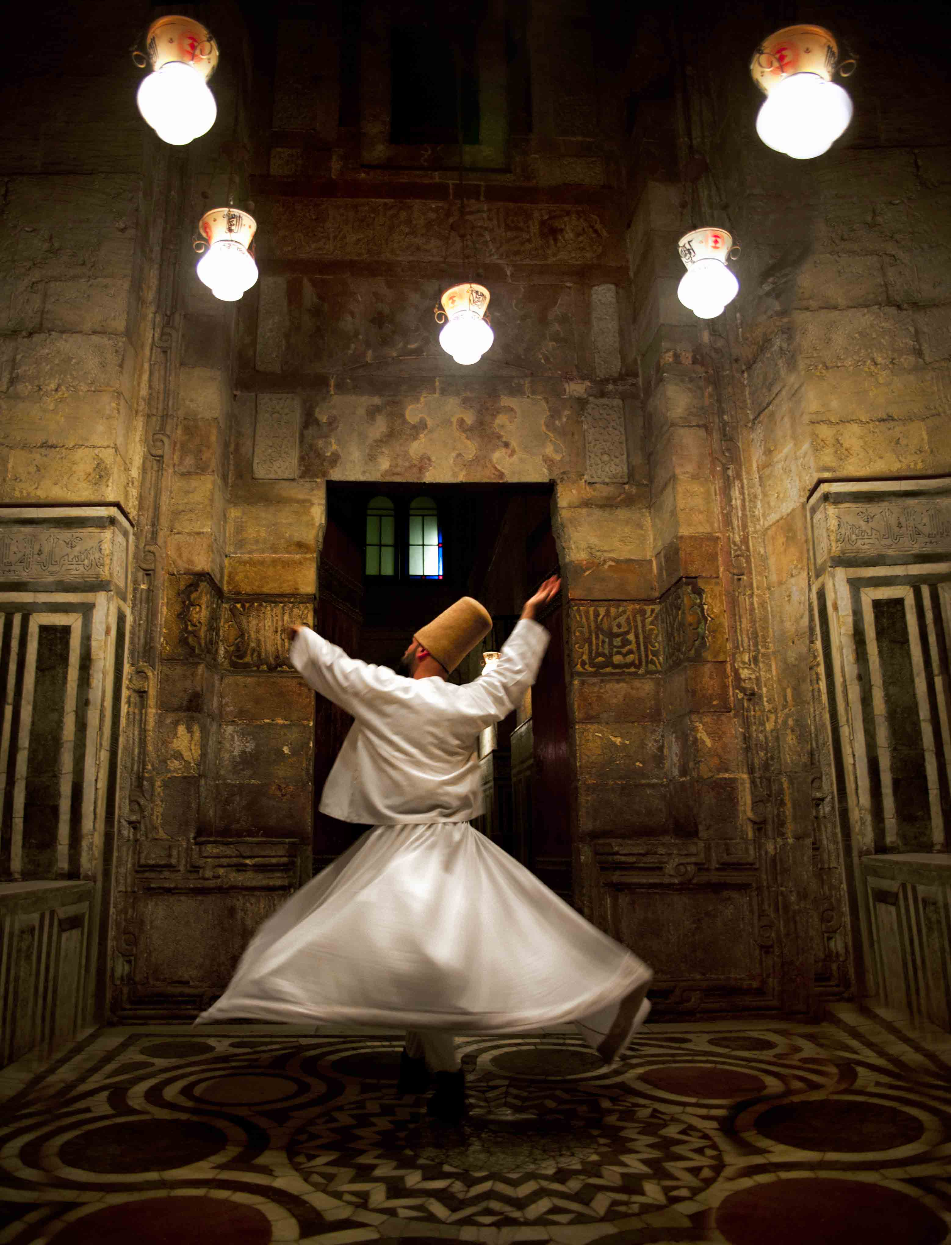 This is an image from Egypt